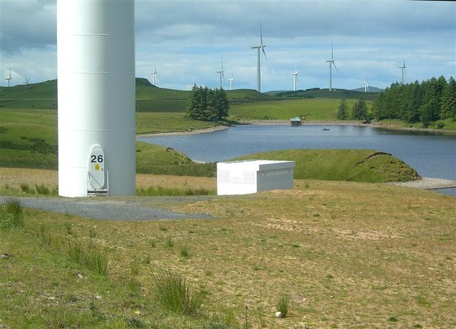 From Number 26 Penwhapple Reservoir, viewed from the foot of turbine number 26 of the Hadyard Hill Wind Farm. This wind farm was opened on 9 March 2007, by David Cairns MP, Parliamentary Under-Secretary for Scotland. It is operated by Scottish & Southern Energy.